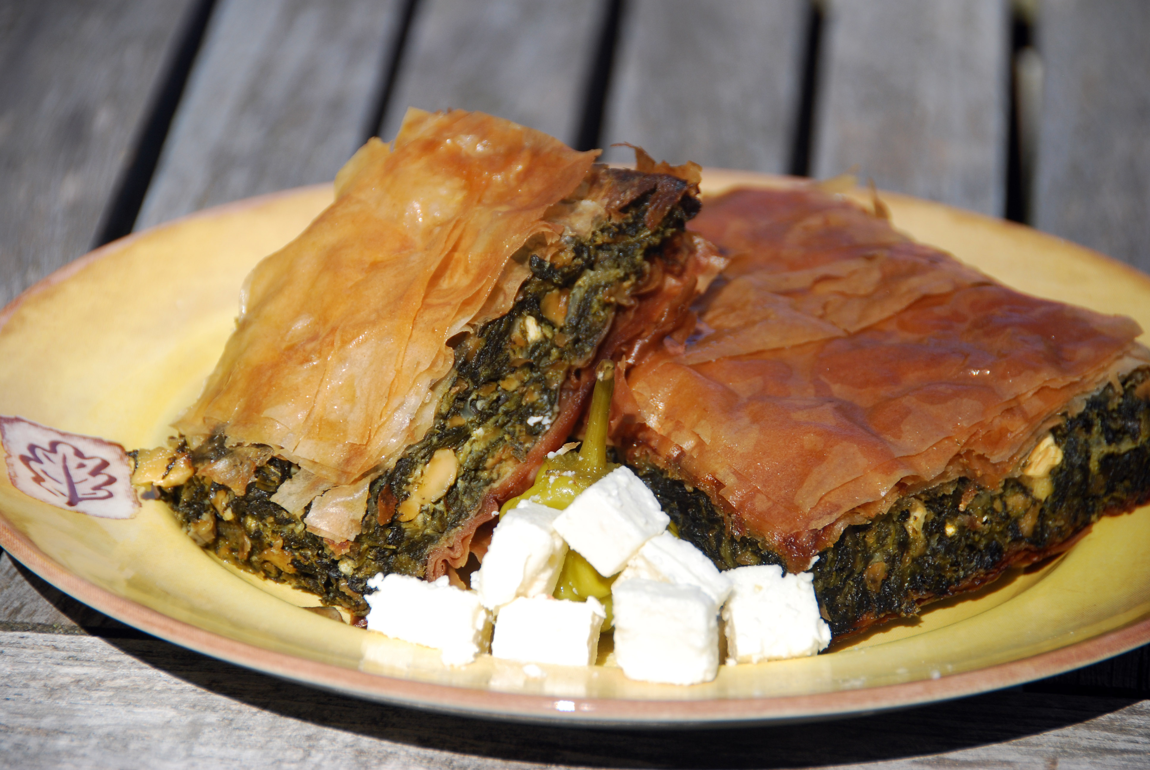 Spanikopita with cubed feta cheese on yellow dish.